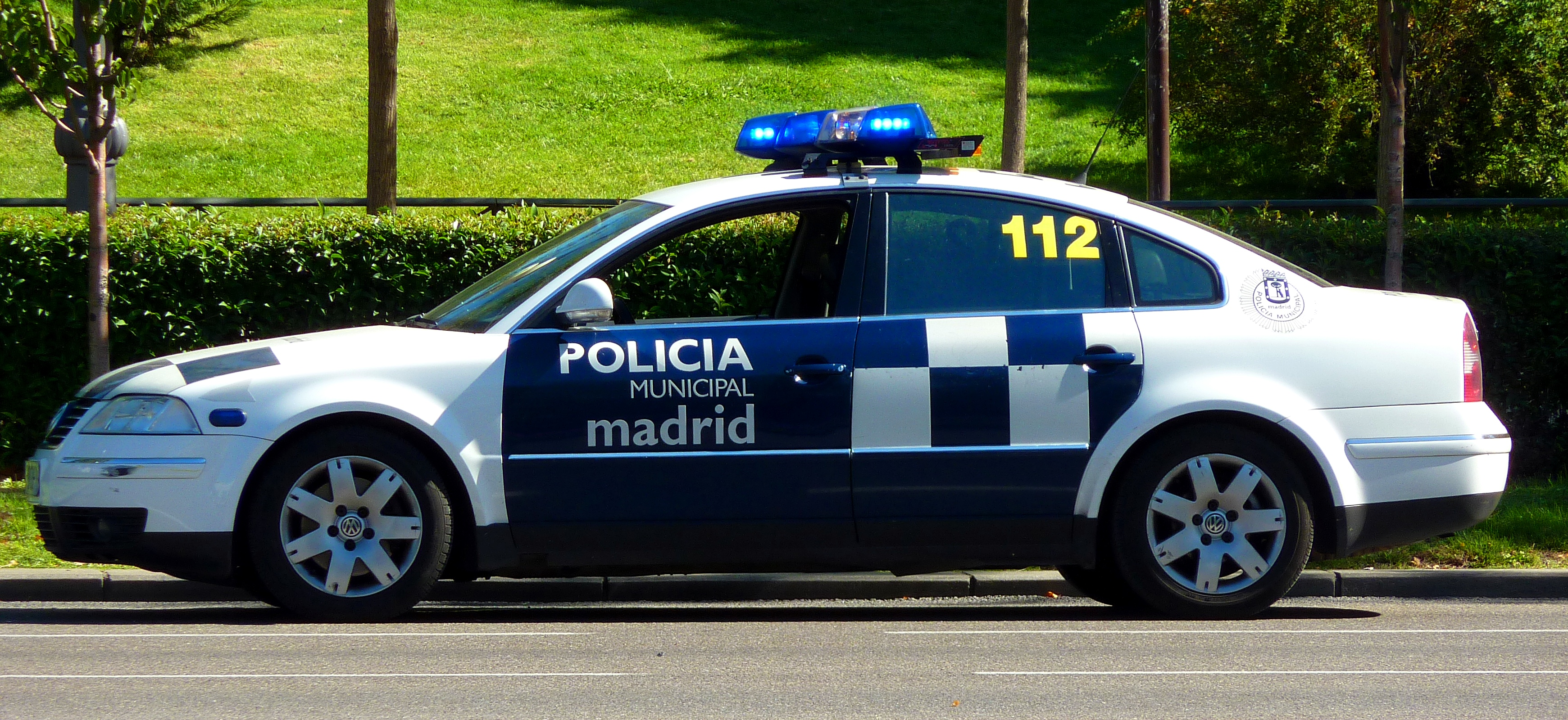 4th generation Volkswagen Passat of the Madrid Municipal Police, Spain.